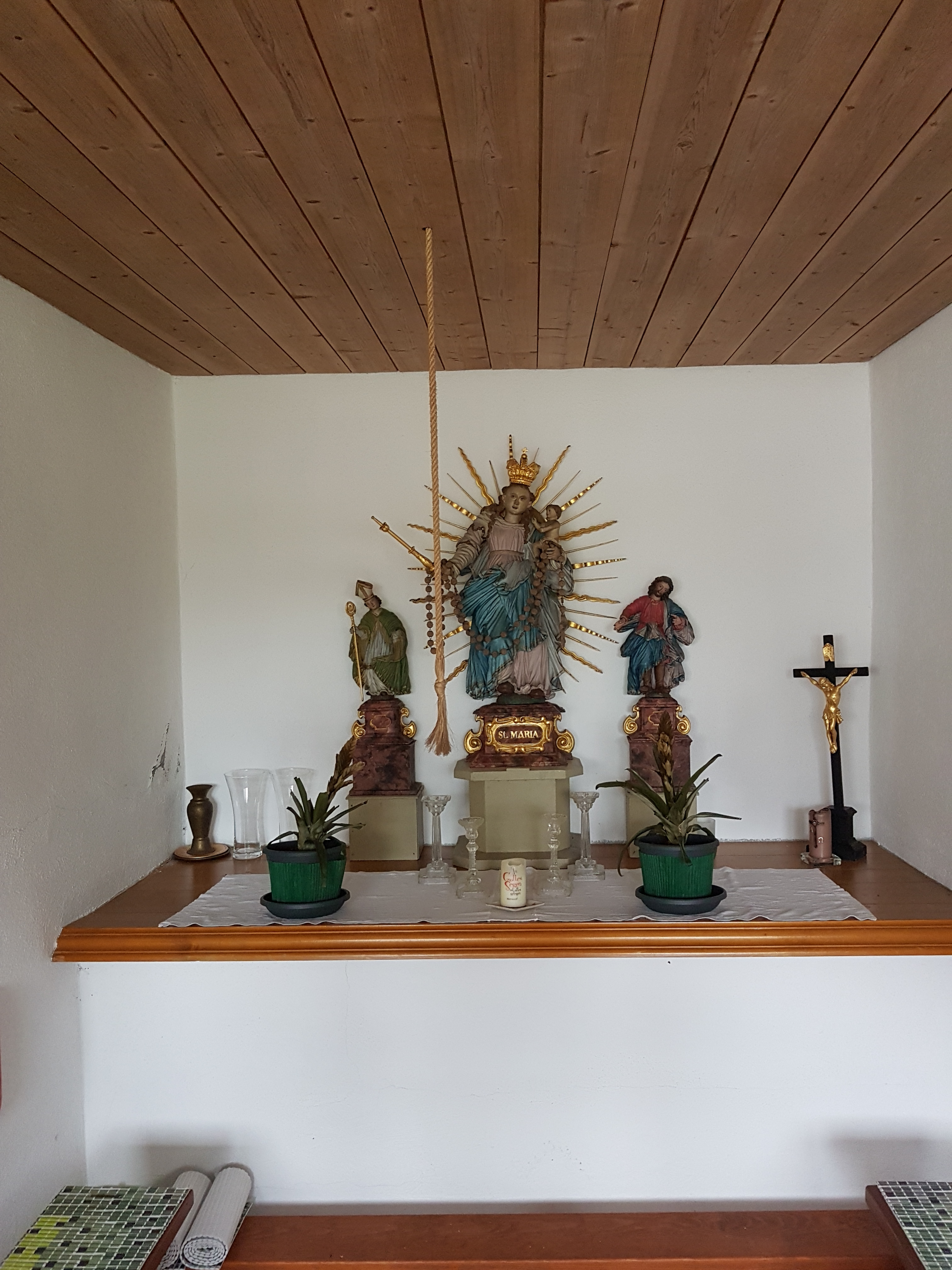 Listed Saint Mary of Help chapel at Muehleplatz in Innerbraz, Vorarlberg, Austria. Built around 1630, originally dedicated to St. Valentine. Altar figures date from the late 17th century.